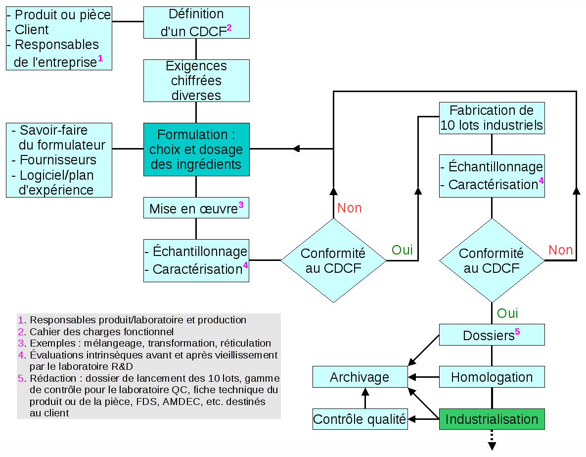 Simplified organigram showing the steps permitting, from a functional specification, to manufacture a product (e.g. adhesive, putty) or part.